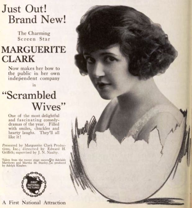 Advertisement for the American comedy film Scrambled Wives (1921) with Marguerite Clark, on page 24 of the March 5, 1921 Exhibitors Herald.